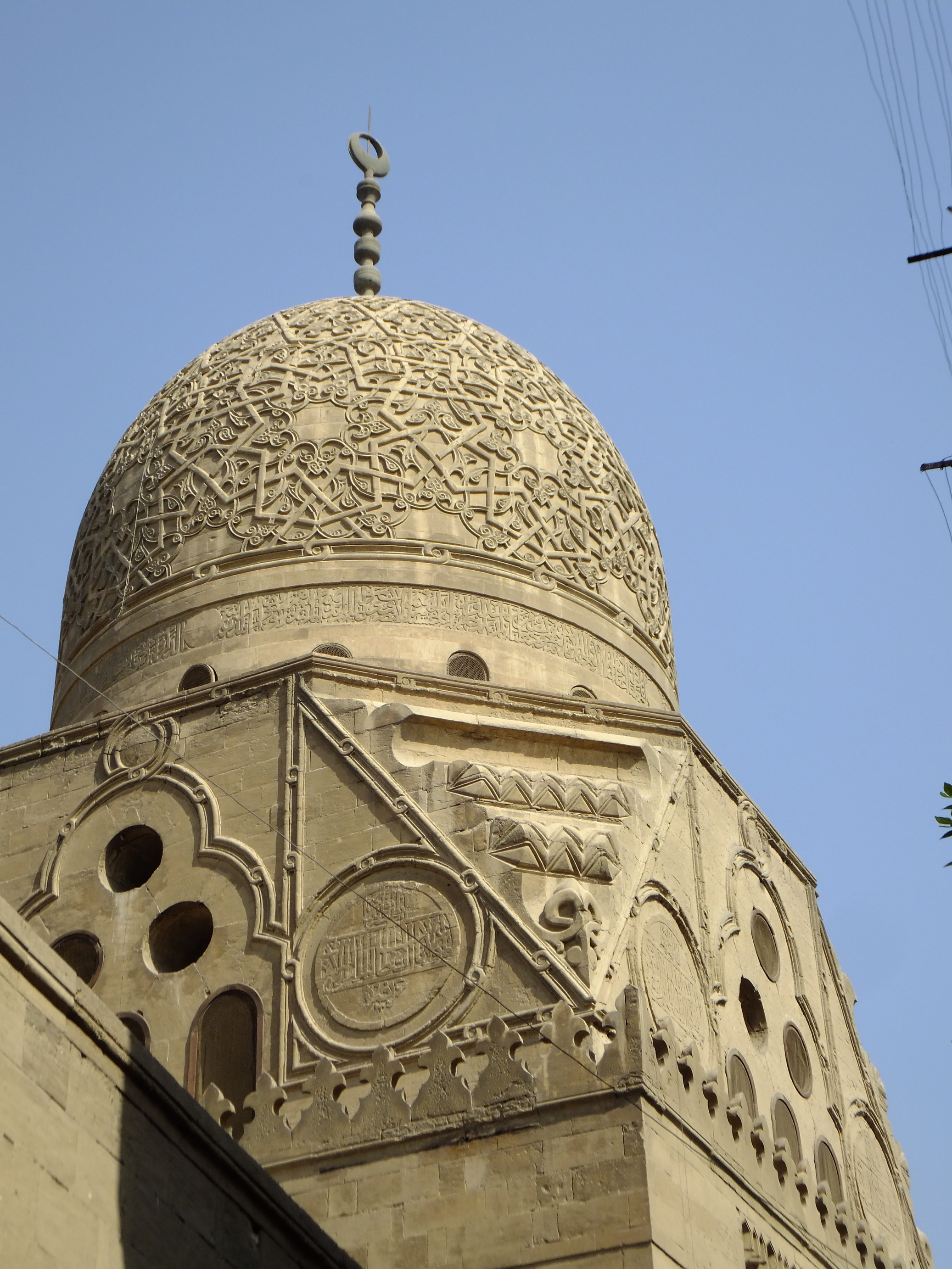 View of the dome of Sultan Qaytbay's mausoleum in the Northern Cemetery.